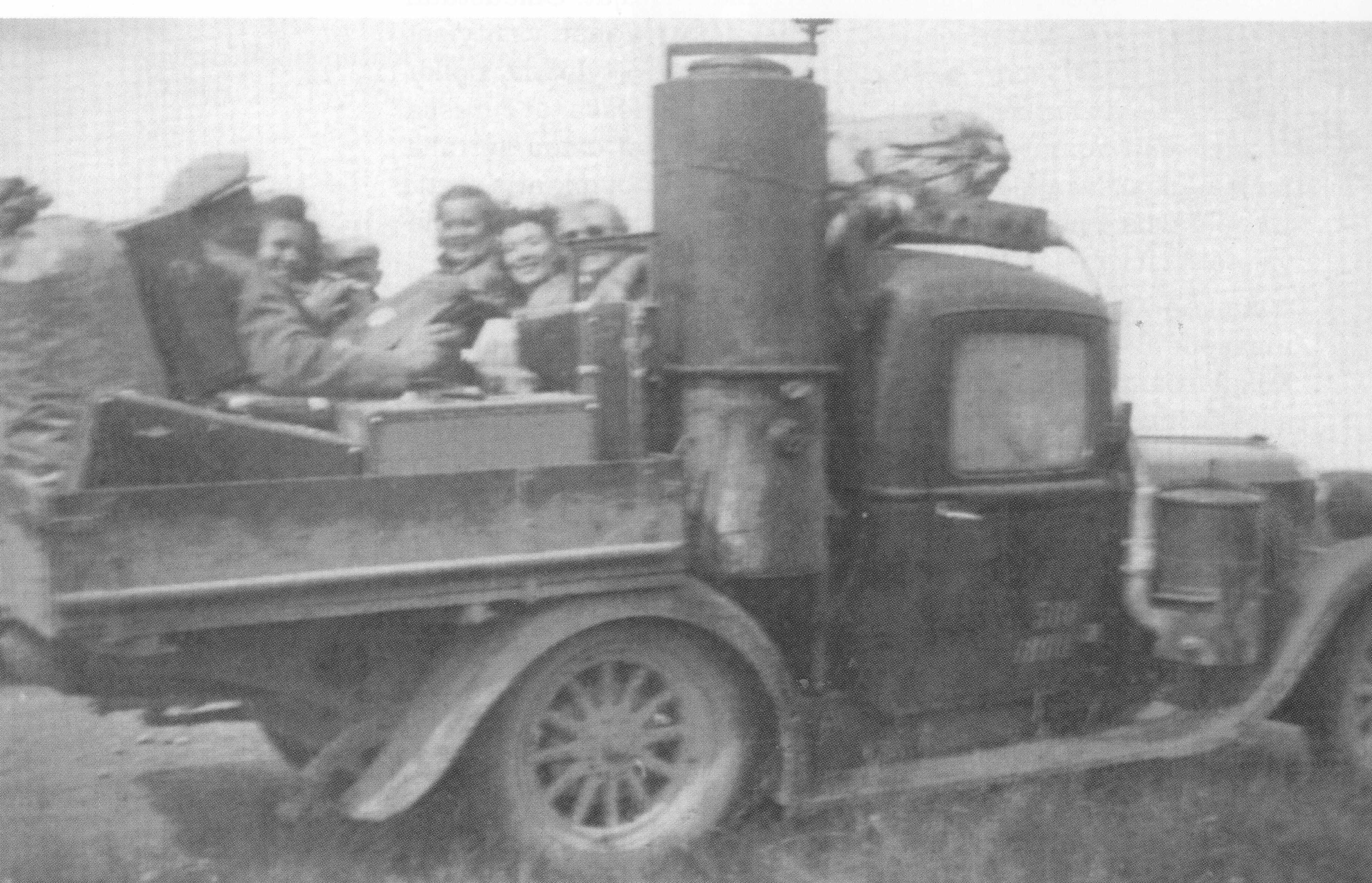 Transporting from Salo to Loimaa in year 1943